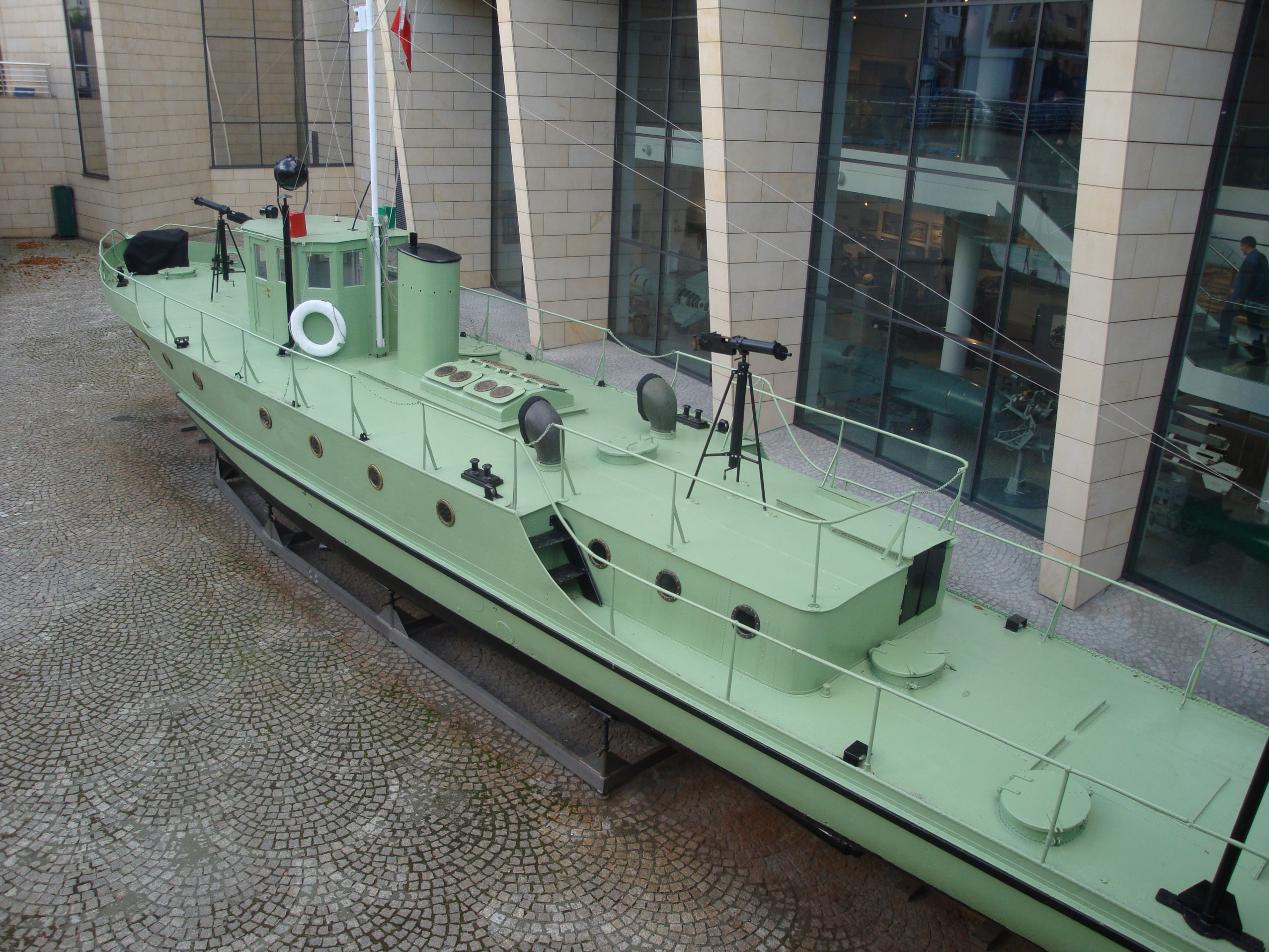 Polish patrol boat Batory (launched in 1932) as exhibit in Polish Navy Museum in Gdynia.